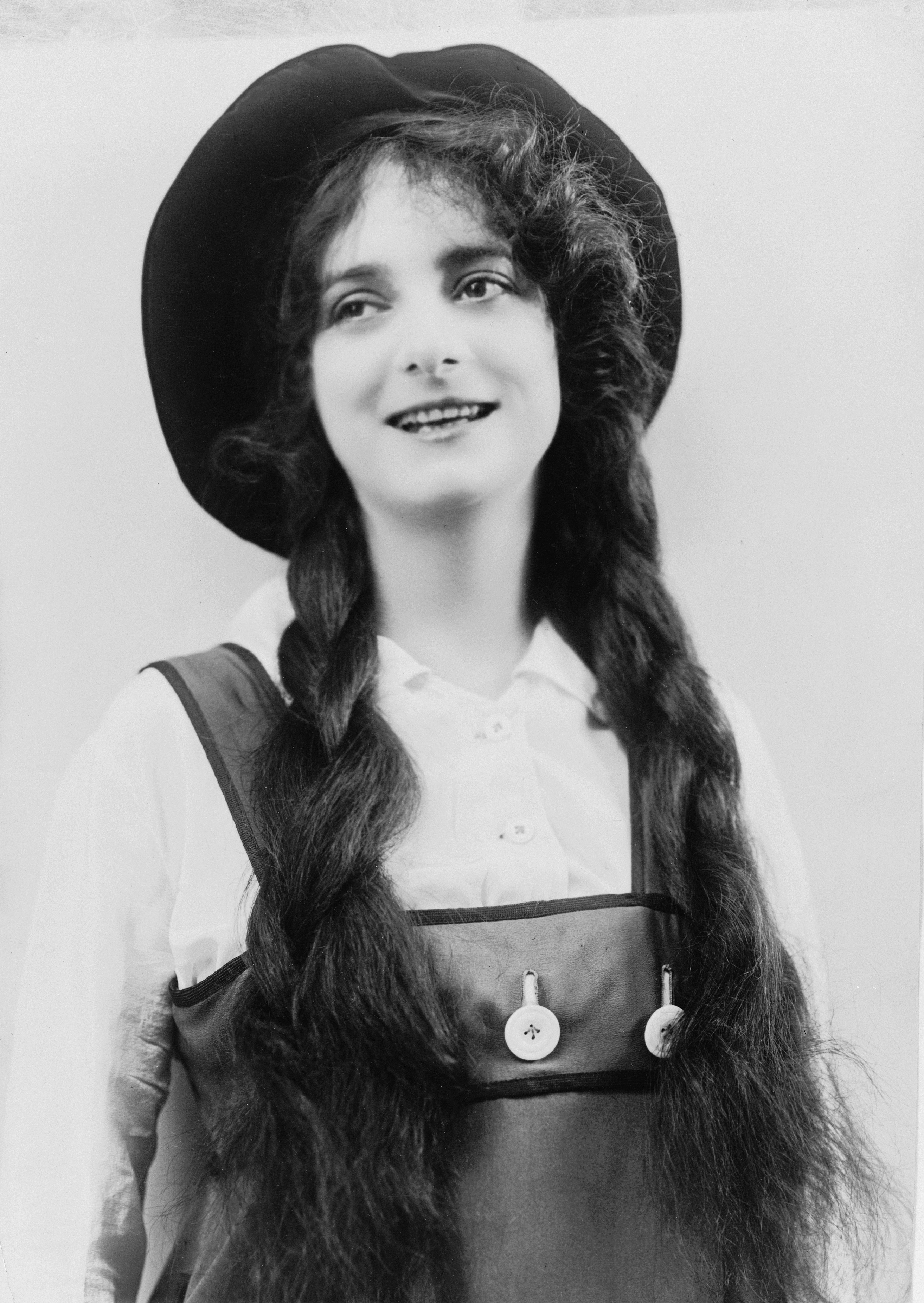 Dorothy Bernard, half-length portrait, in costume of jumper, hat, and braids